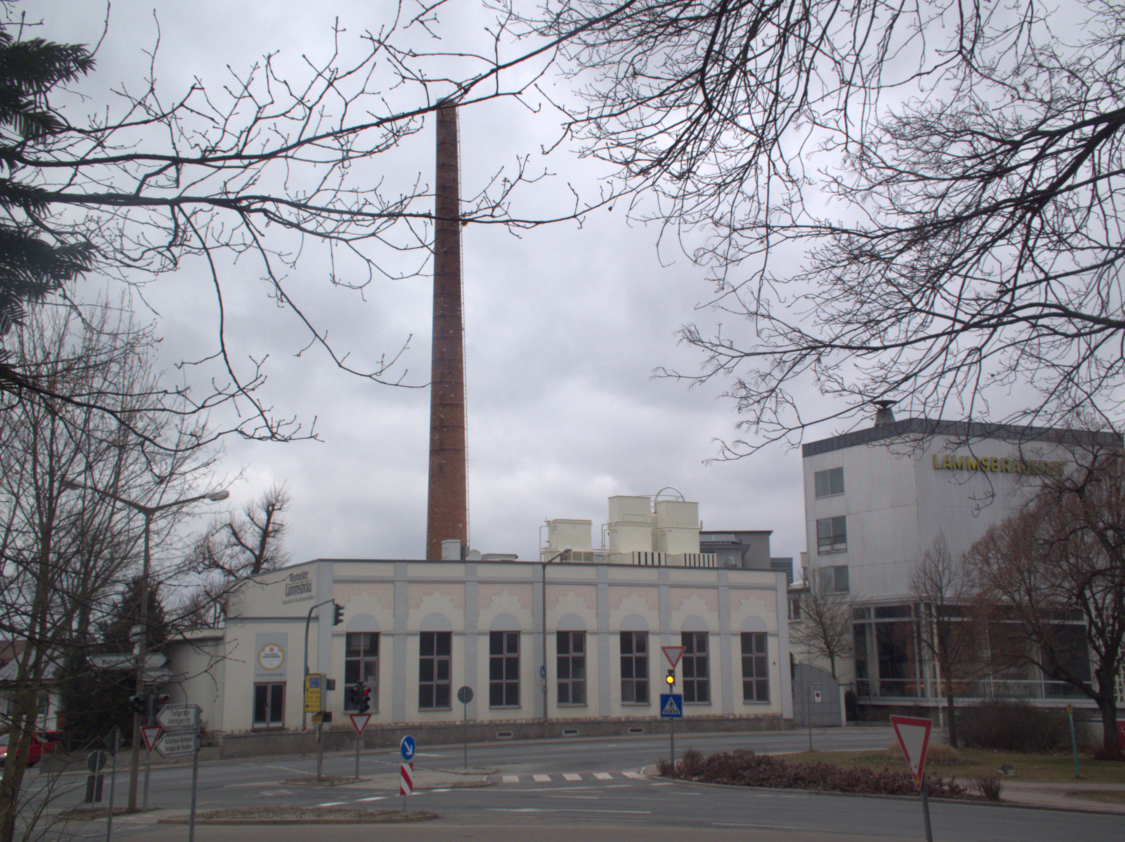 The Neumarkter Lammsbräu brewery in Neumarkt, Bavaria